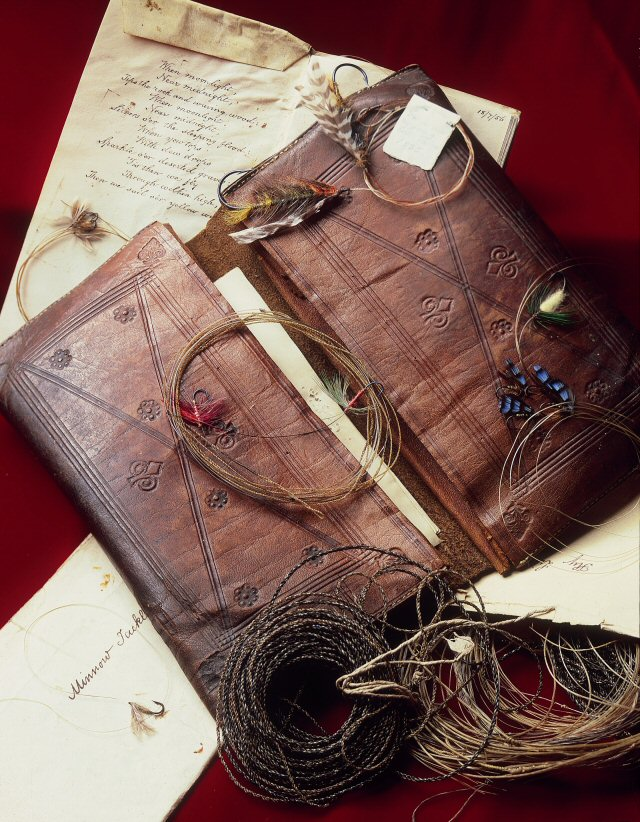 Historic Fly Fishing Items From The American Museum of Fly Fishing Collections, Manchester, VT